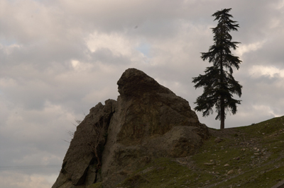 Weeping Rock, Ağlayan Kaya- associated with Niobe in Manisa, Turkey